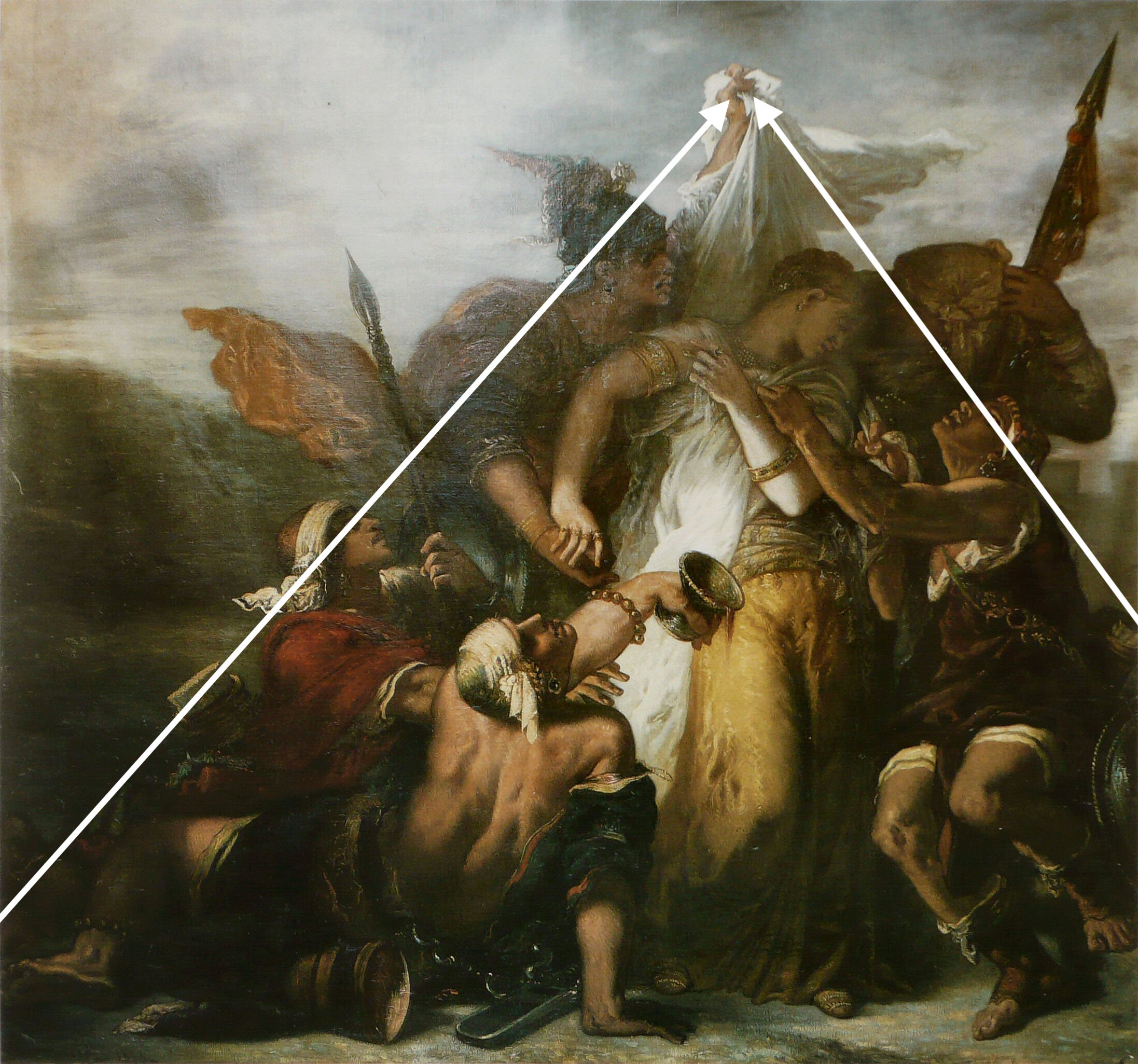 analysis of the movement int the painting